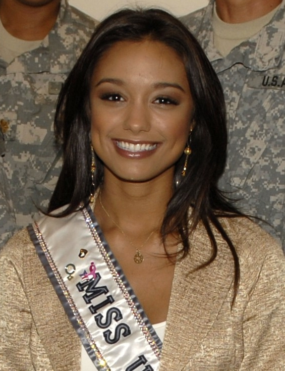 Following lunch with Soldiers in the Pentagon's executive dining room June 21, Miss USA, Rachel Smith, took a moment to sit for a portrait. Soldiers from left to right are: Sgt. Maj. Thuan Wright, Staff Sgt. Shajn Cabrera, Maj. Elizabeth Casely, Staff Sgt. Ed Fountain and Staff Sgt. Laura Belzer.